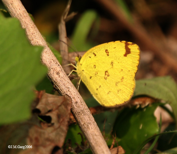 Three-spot Grass Yellow Eurema blanda in Kolkata, West Bengal, India.